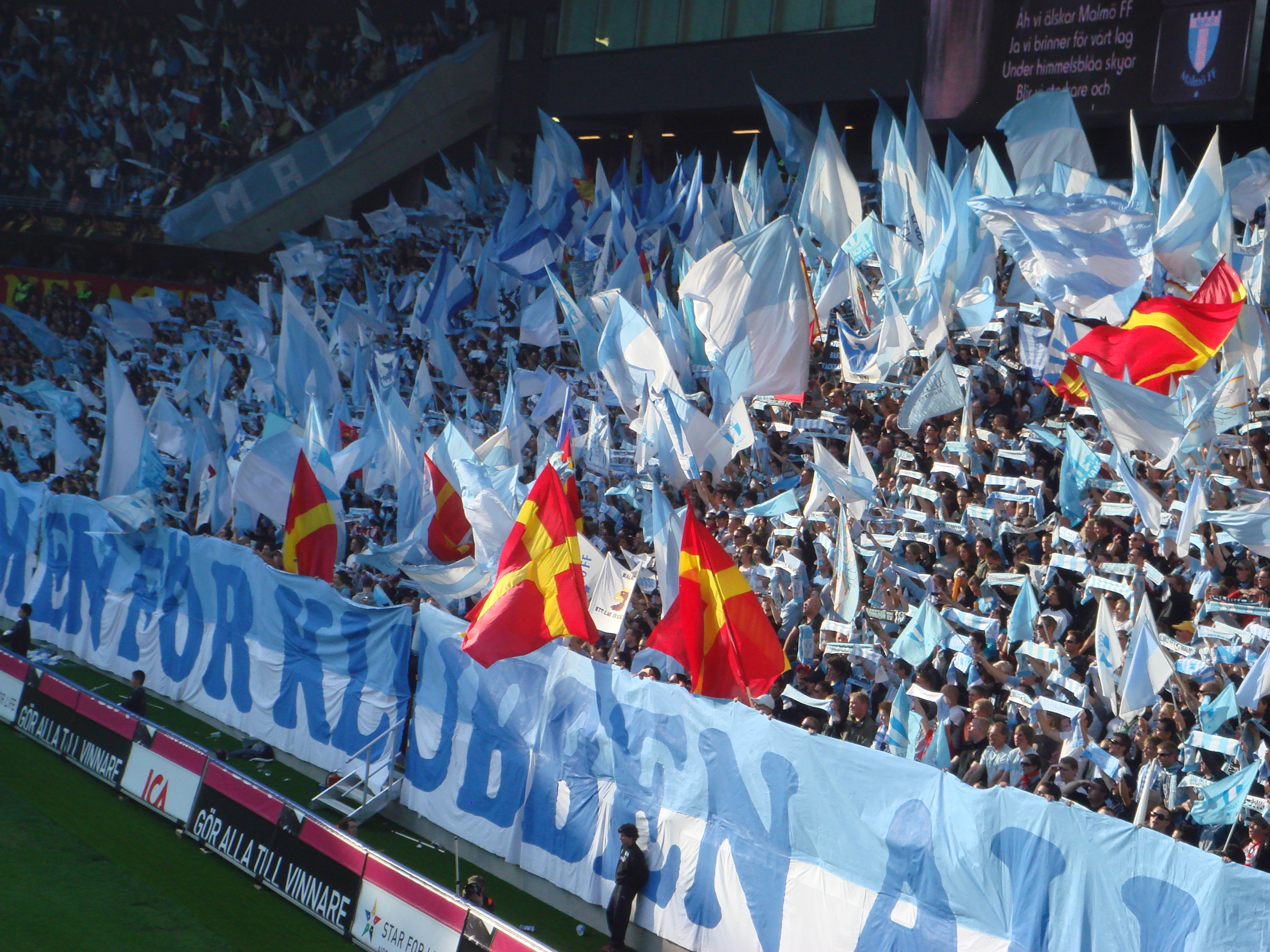 Malmö FF Fans during the Fotbollsallsvenskan game Malmö FF-Örgryte IS (3-0) at the Swedbank Stadion.